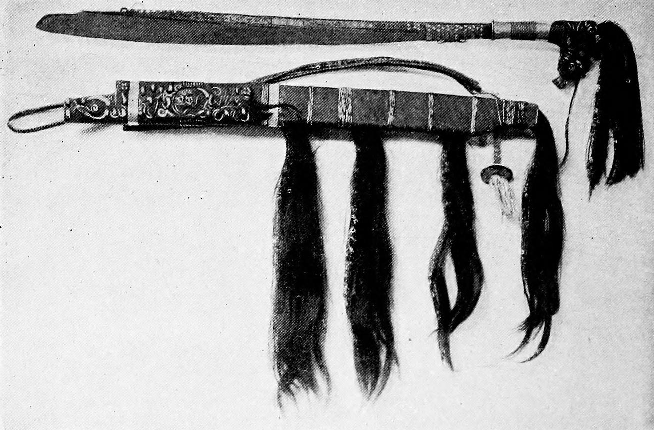 North Borneo Chartered Company: Sword presented by Mat Salleh to W. C. Cowie during their negotiations